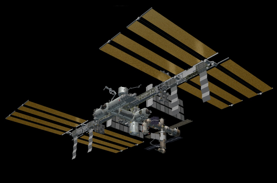 Screencap from NASA 3D model. No visiting vehicles are shown in this illustration.